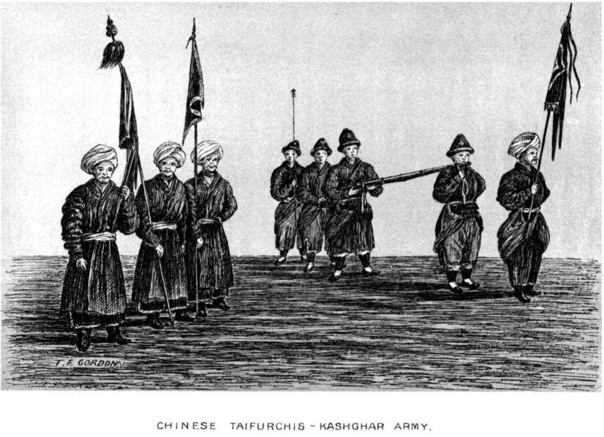 "Chinese Taifurchis -- Kashgar Army", illustration from T.E. Gordon's "Roof of the World". Taifurchi were Yaqub Beg's corps of Dungan and Chinese gunners (from Chinese 大炮, 'big gun') during his reign in Kashgaria in the 1870s.